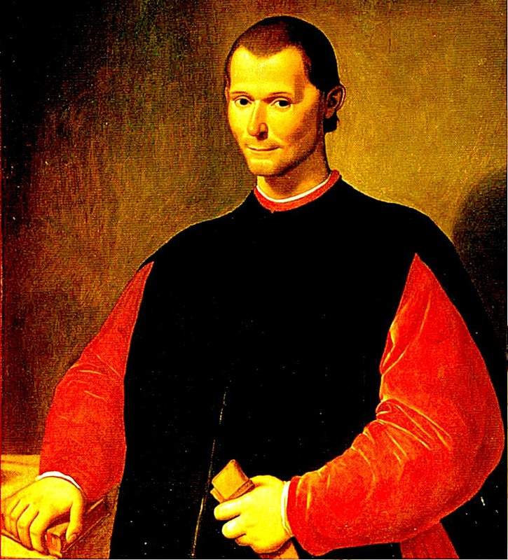 Никколо Макиавелли. Художник Санти ди Тито